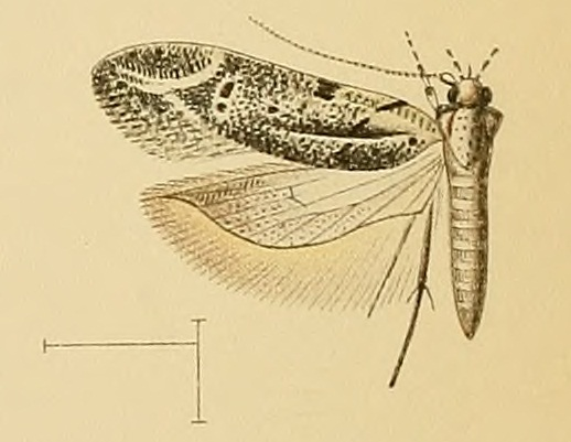 Micromoths from Madeira